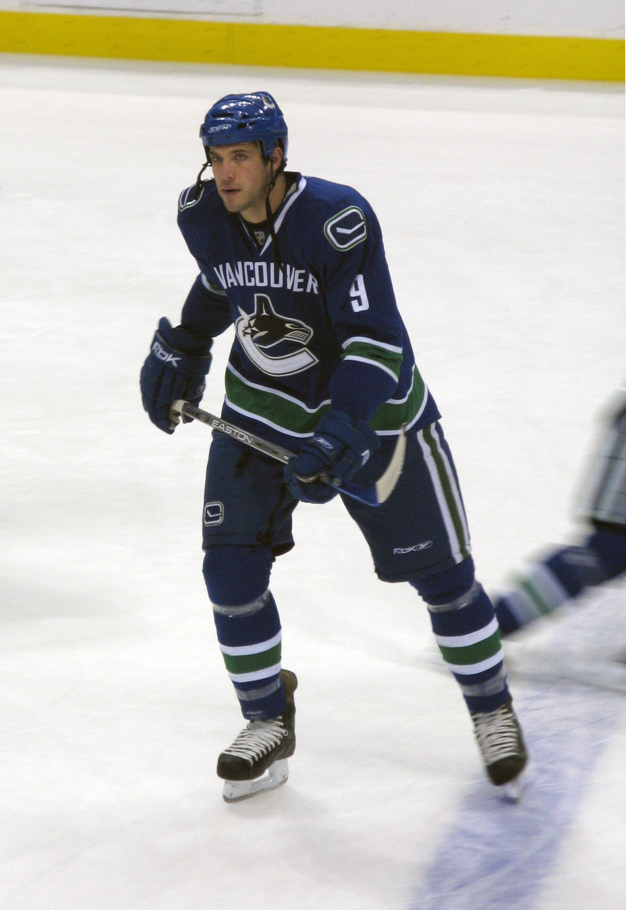 Taylor Pyatt during a pre-game warm-up in Nov. 2007